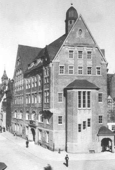 The Staatsarchiv (“state archive") in Bremen, Germany, built in 1909 by Albin Zill.